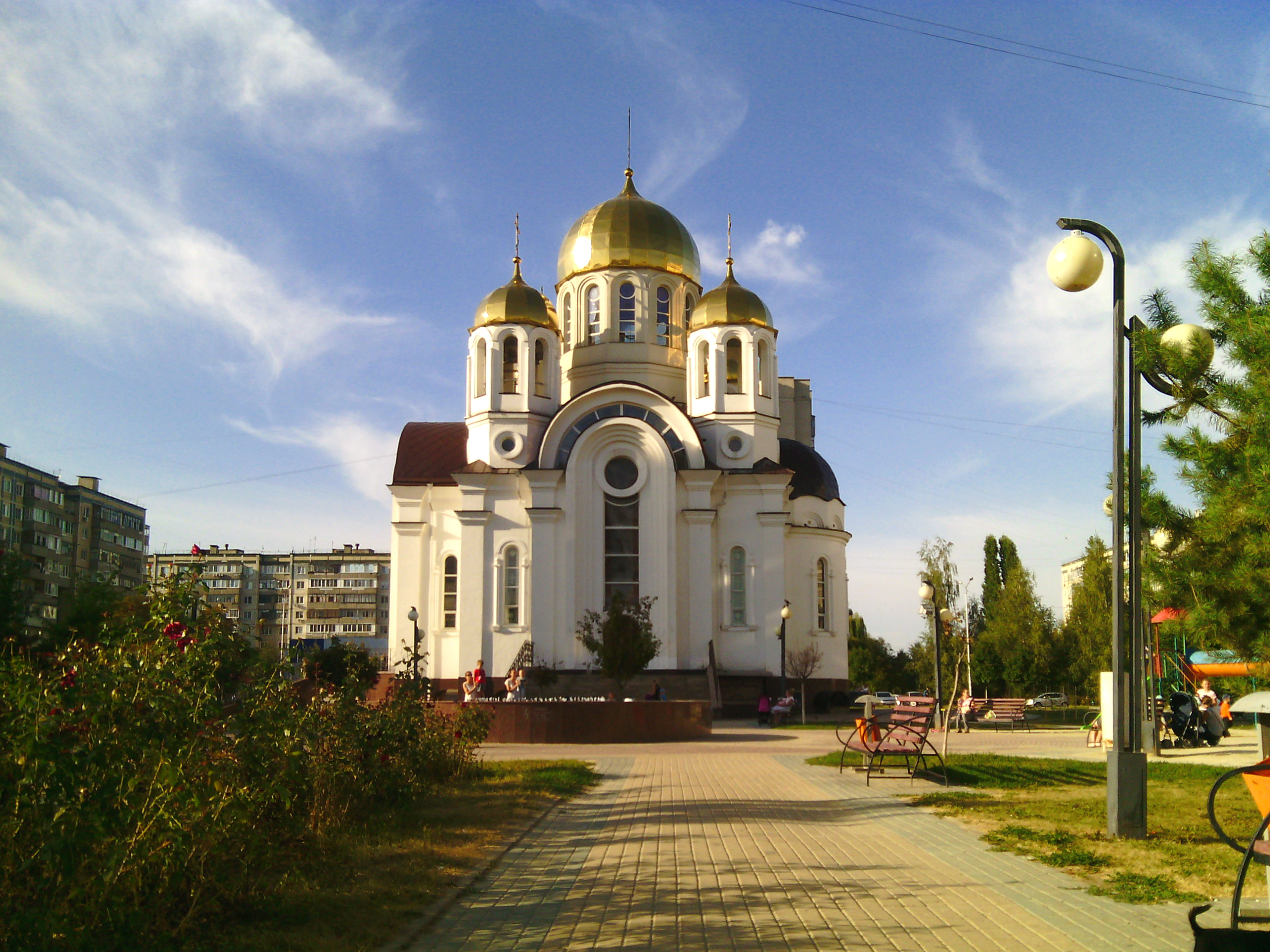 Pochayev Church in Belgorod